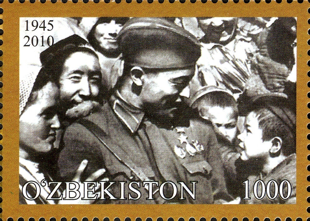 Stamps of Uzbekistan, 2010